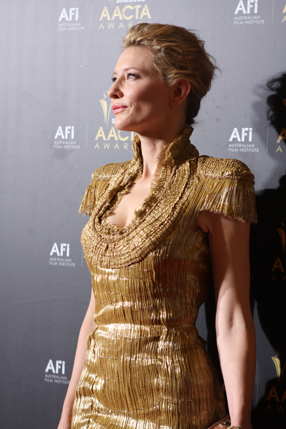 Cate Blanchett at the AACTA Awards 2012 in Sydney, Australia